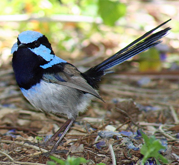 Superb Fairy-wren in nuptial plumage - face fan display Hunter Valley Gardens